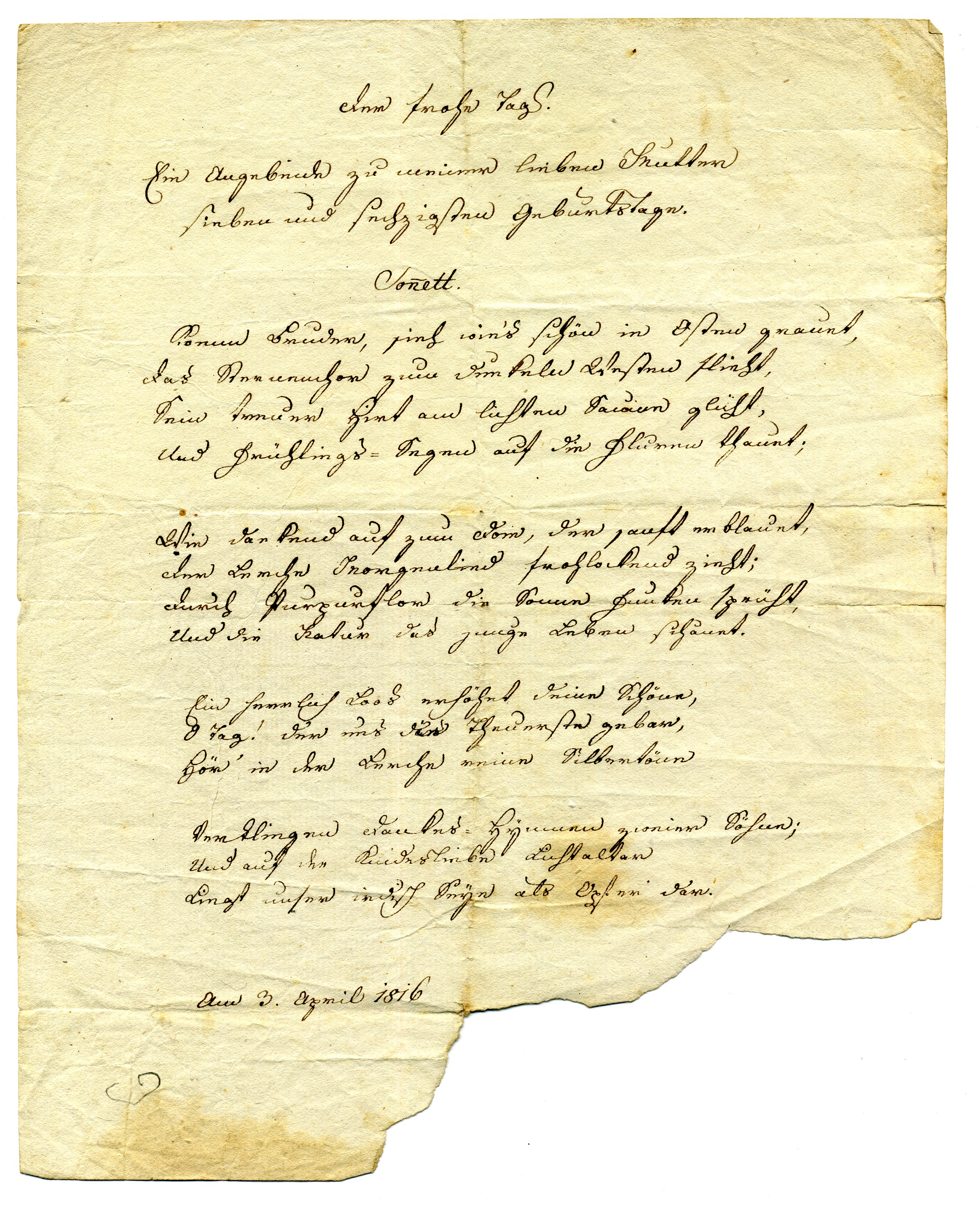 "german sonett for the 67. birthday from 1816-04-3"